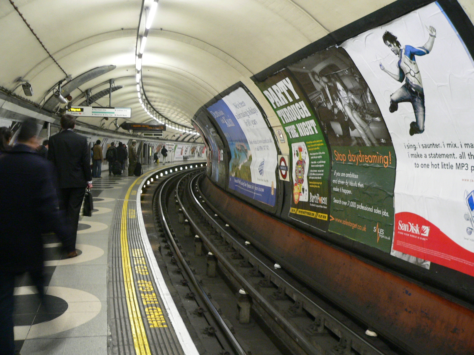 The northbound Bakerloo Line platform at Waterloo station.